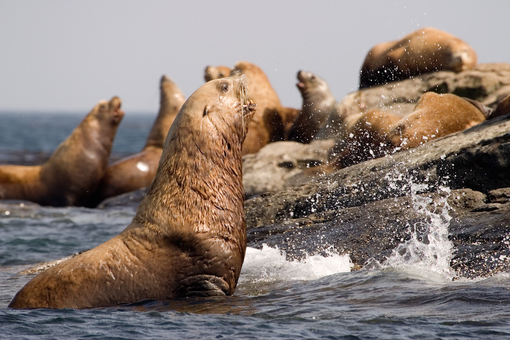 Steller sea lions Near Vancouver Island, BC, Canada